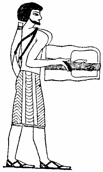 Man playing an asiatic cithara or rotta (from a fresco).